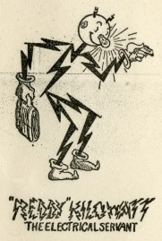 This rendering of the corporate symbol "Reddy Kilowatt" is excepted from the registered trade-mark granted to Ashton B. Collins, Sr. by the U.S. Patent Office on March 28, 1933.